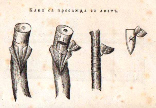 "Agriculture" by Nikola Ikonomov, published in 1853 - an illustration on grafting.